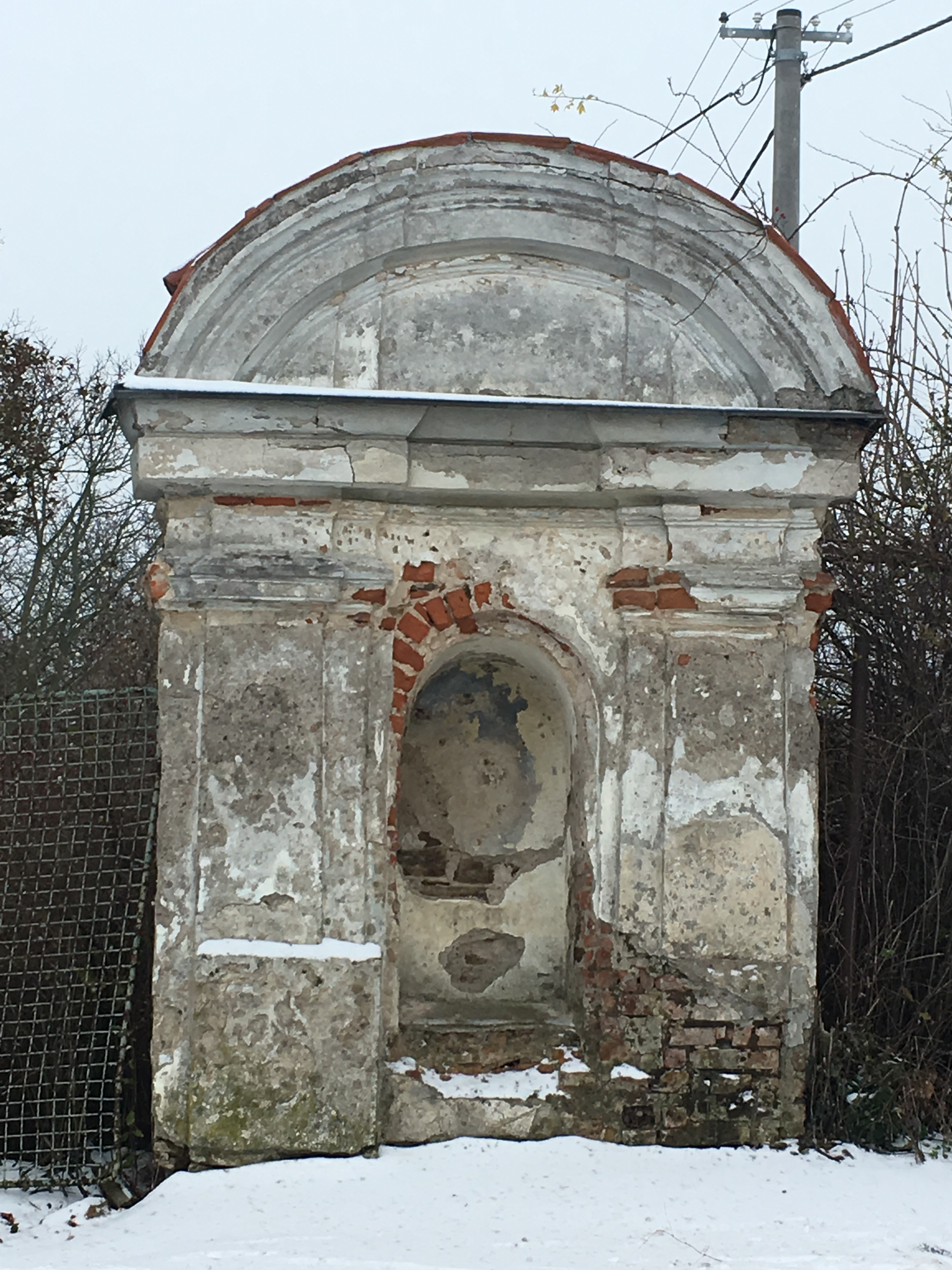 Kaple Panny Marie, Nechyba (Úžice)